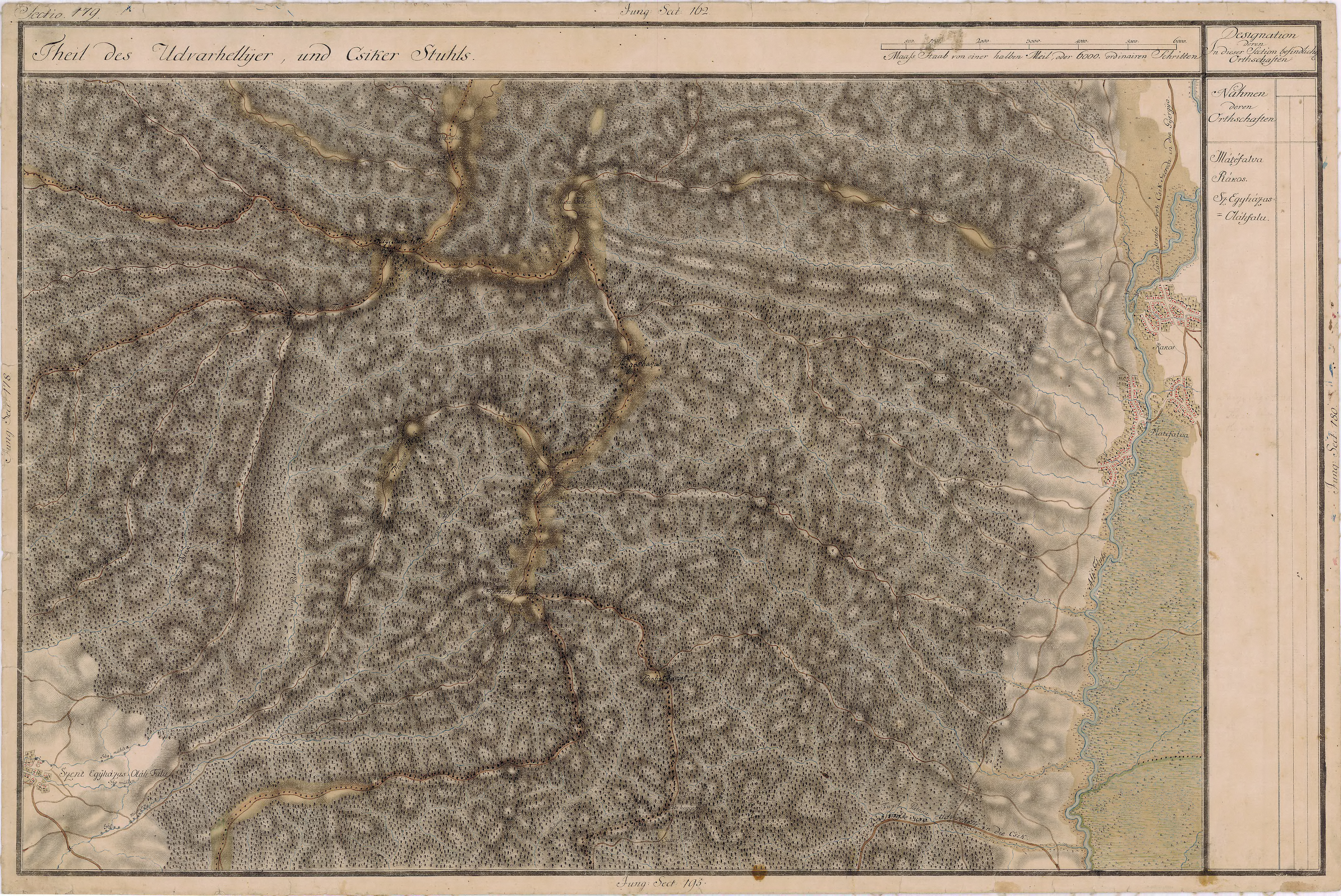 Grand Duchy of Transylvania, 1769-1773. Josephinische Landaufnahme pg.179